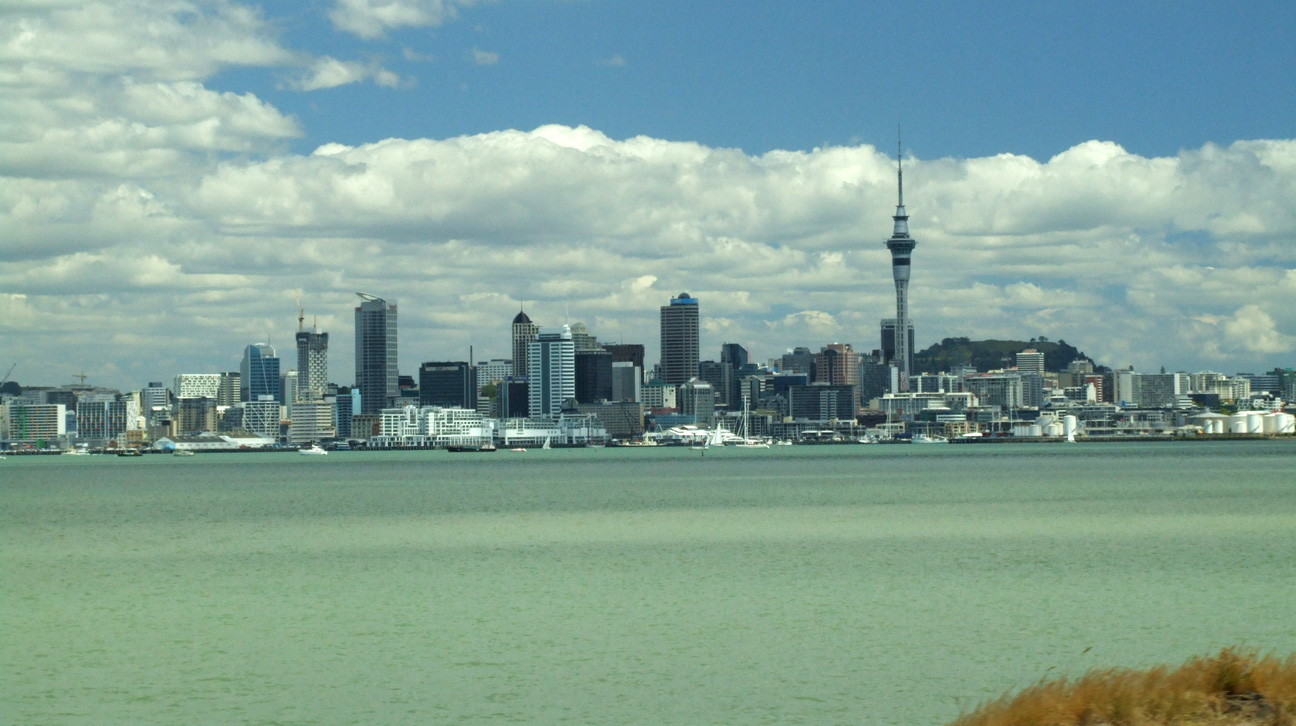 Photo of the Auckland (New Zealand) skyline